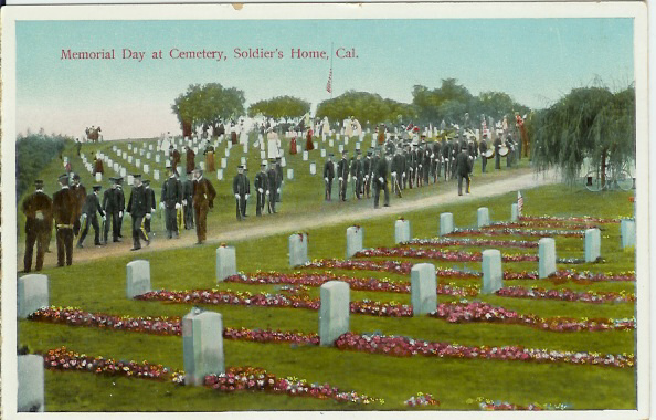 Soldiers Home - Sawtelle, Los Angeles, California - Cemetery - Memorial Day - Vintage Postcard